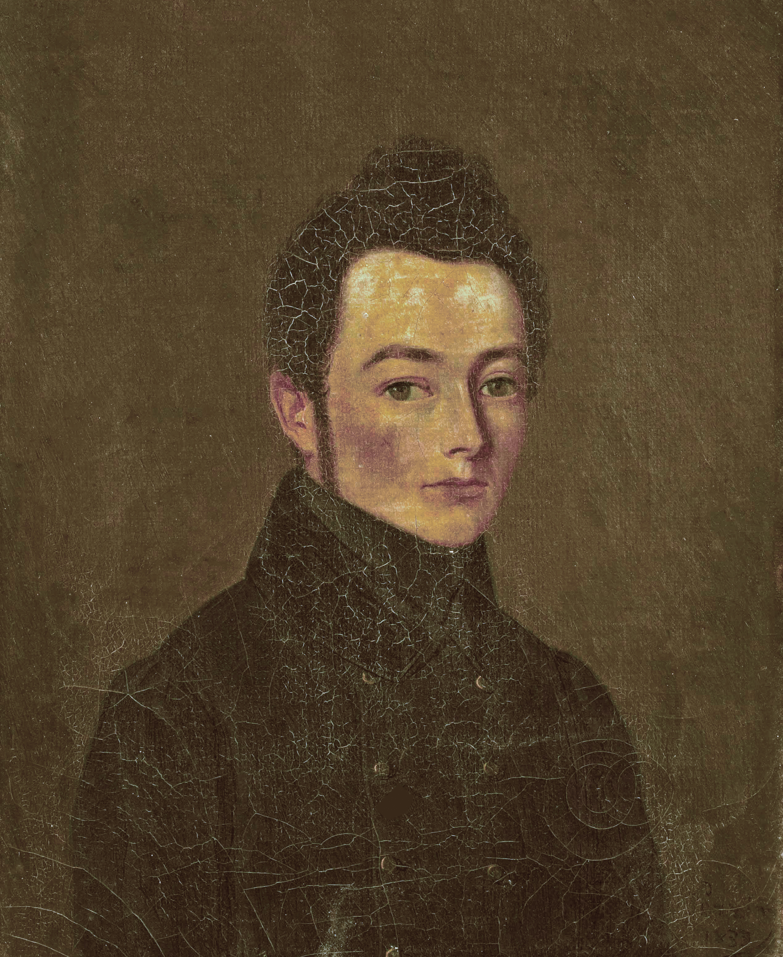 Pierre-Frédéric Dorian oil on canvas 24 x 19,1 cm signed l.r.: Perrin 1839